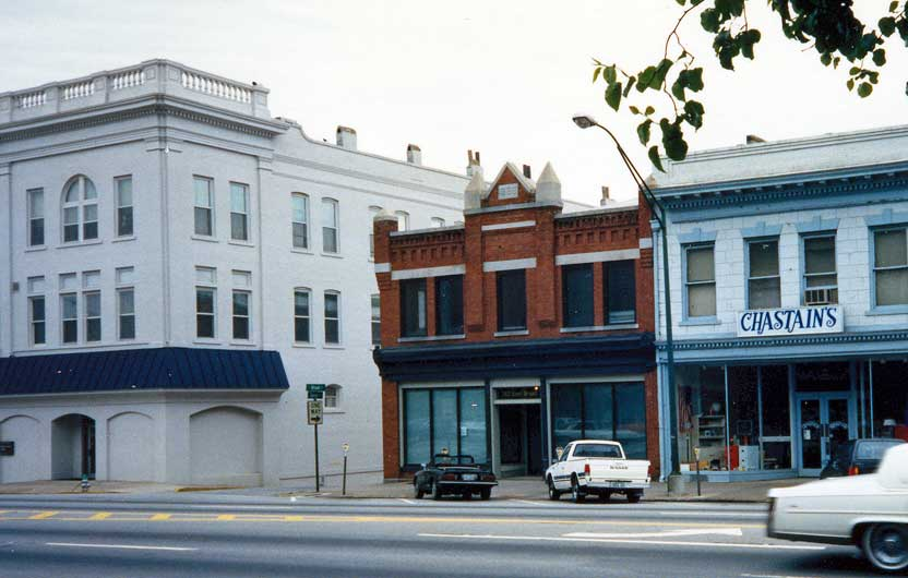 Location of the 40 Watt Club in Athens from 1981-1988. This Broad Street site was the second location of the club. The 40 watt is now located beside Time Bomb on Washington St. for more info